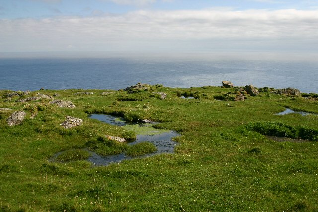 Mullach a' Lusgan. These rock pools are on top of the cliffs at Barra Head, the southernmost point of the Outer Hebrides.